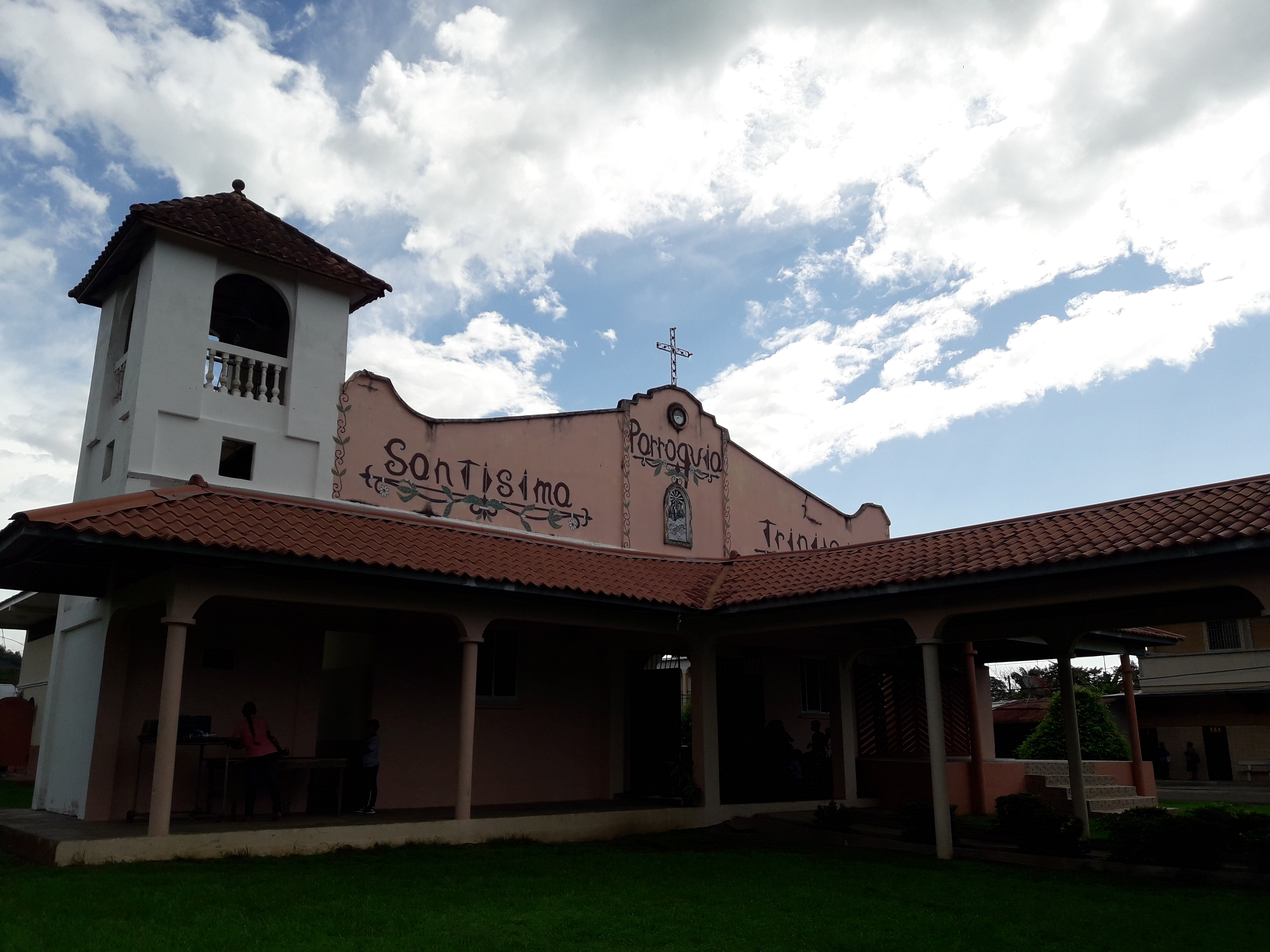 The front of the Parrish Church which is located in Panama, Verguas Calobre.